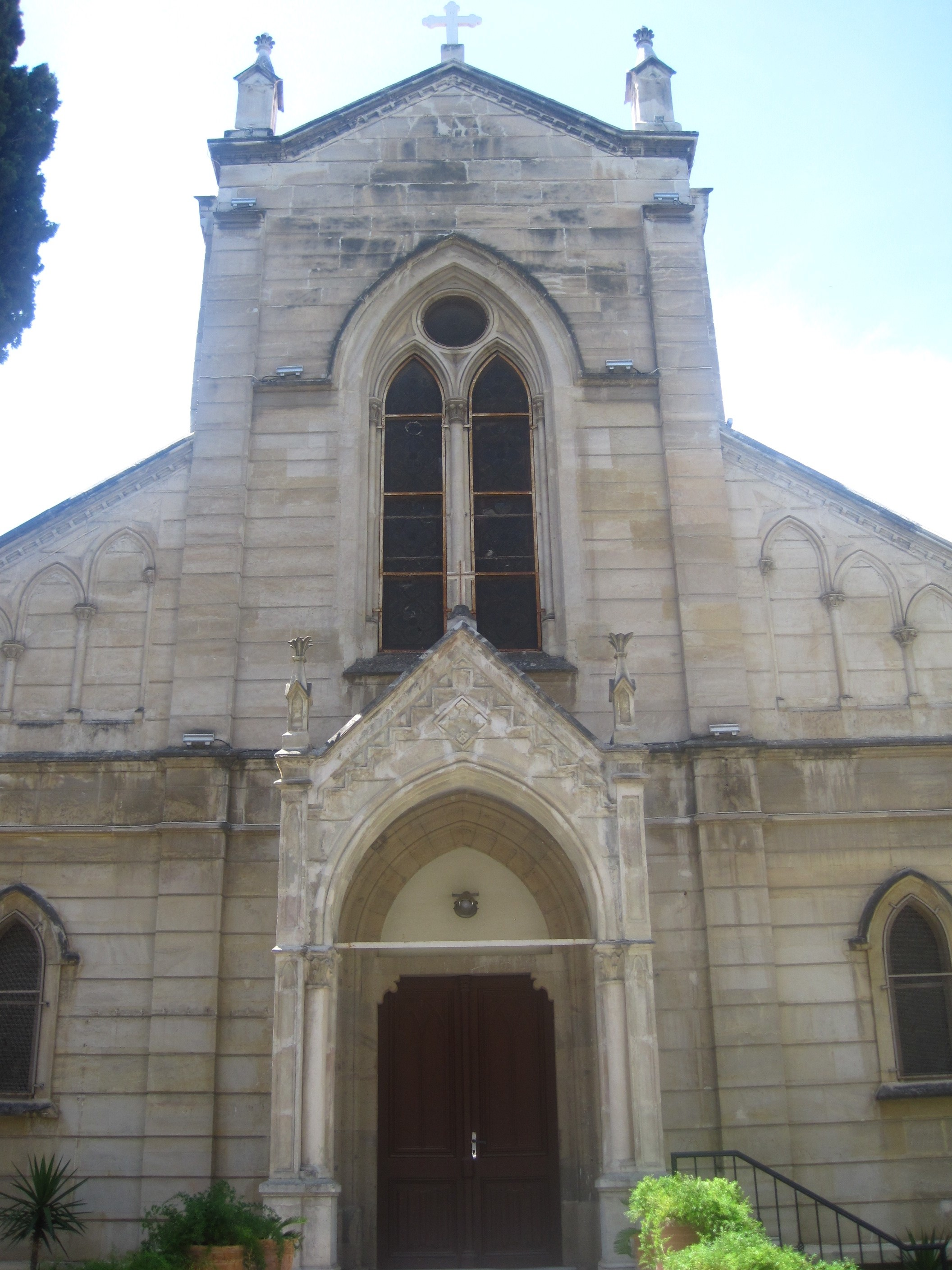 final project